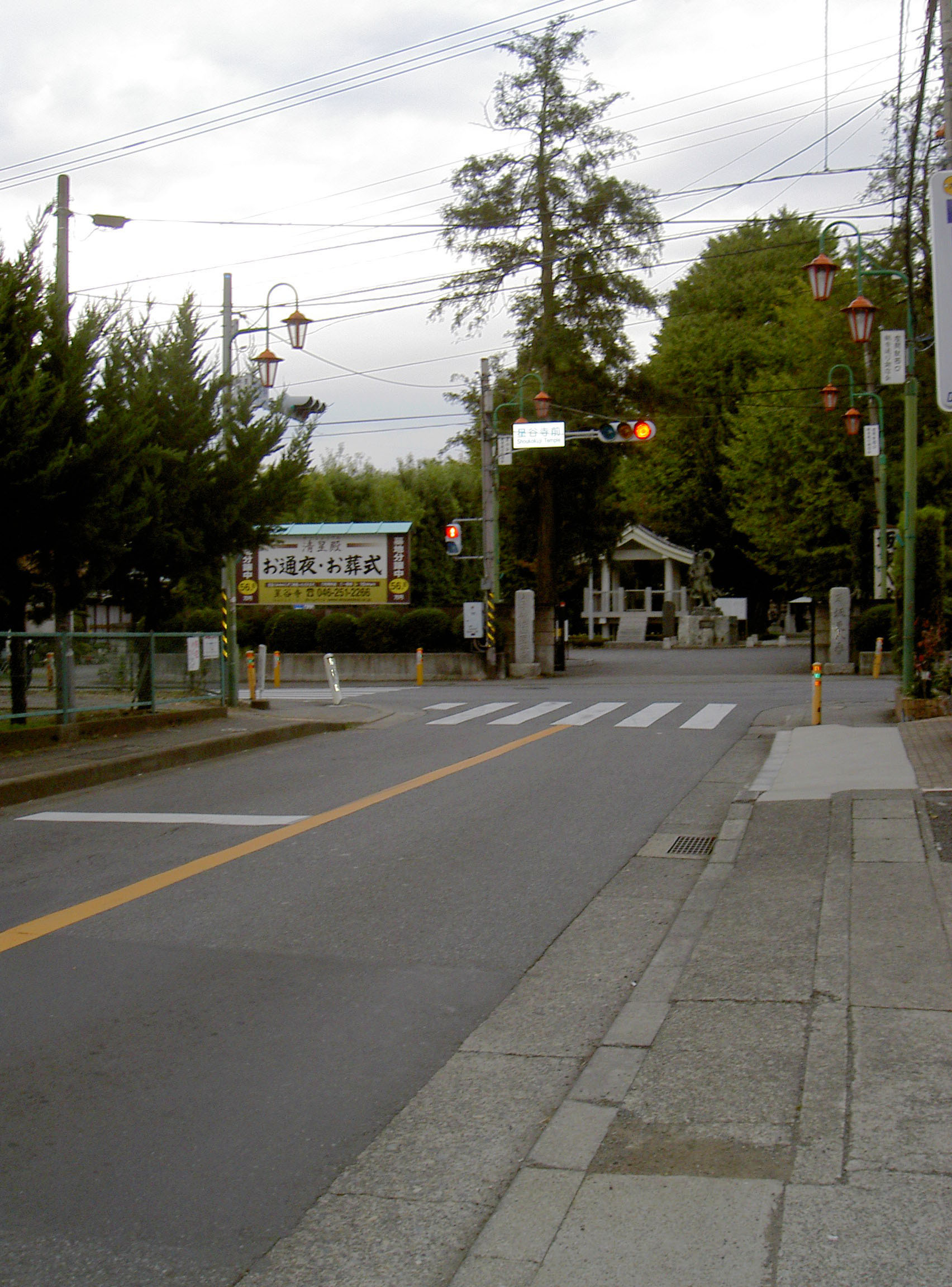 The junctuon of Kanagawa prefectural road route 42 and route 407 ja: 神奈川県道42号藤沢座間厚木線と神奈川県道407号杉久保座間線の合流地点